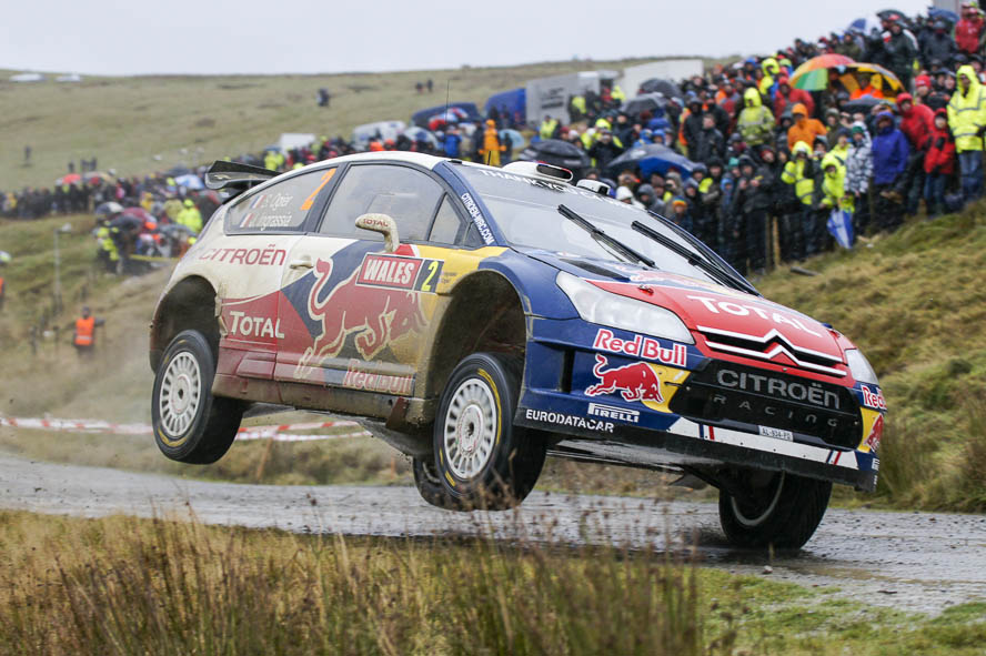 Wales Rally GB 2010 Citroen C4 WRC,Citroen Total WRT,Julien Ingrassia,Rally,Rallye,Sebastien Ogier,Sweet Lambs,WRC